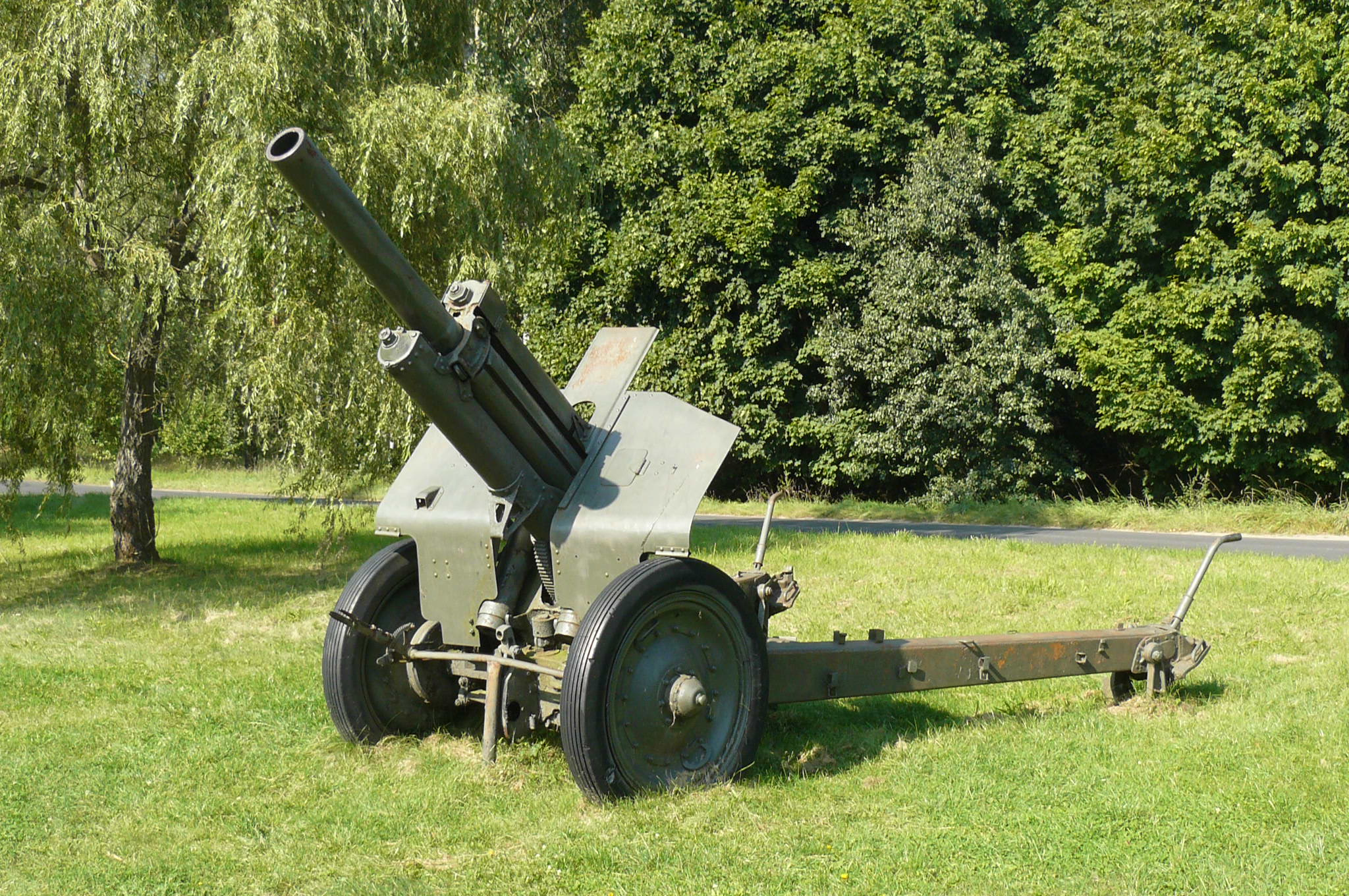 Remains of the open-air museum (WW2) - Zdbice.